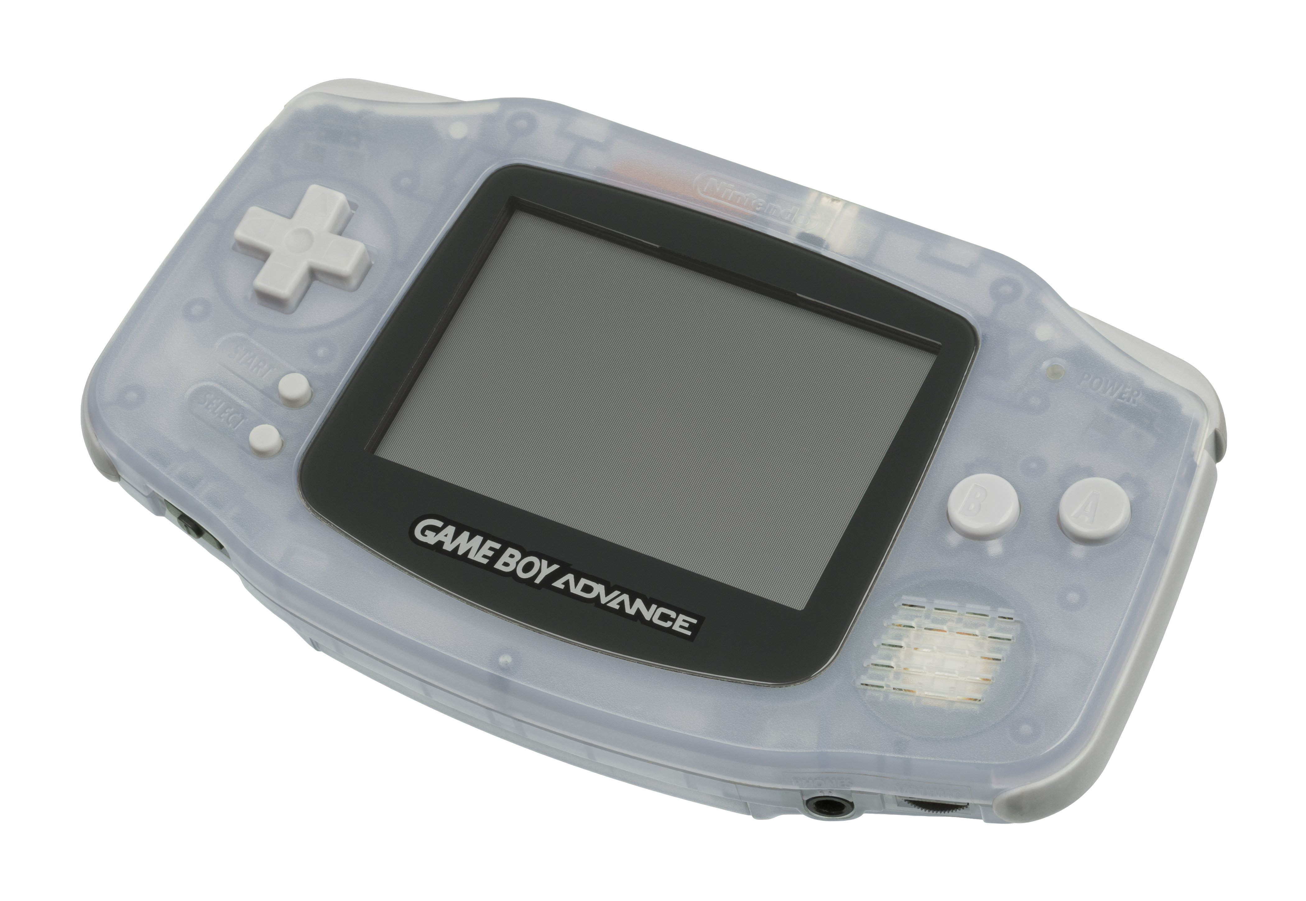 The Game Boy Advance (GBA), a 32-bit handheld gaming system made by Nintendo and released in 2001. This is the first model in the GBA line-up, which features a non-backlit color screen and runs off of two AA batteries. This is a "Glacier" model, a semi-transparent blue, that was one of the three colors available for the North American launch.